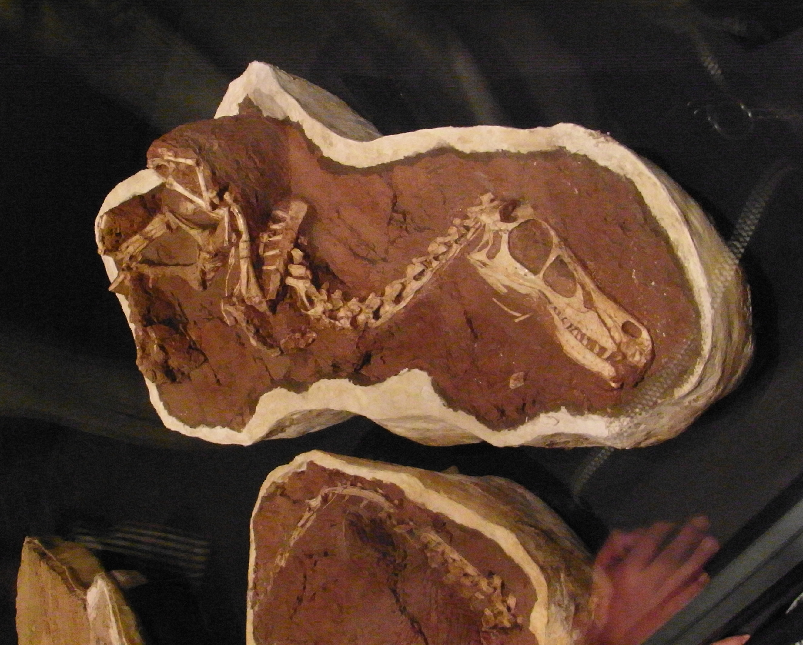 Holotype specimen of Linheraptor exquisitus, the blocks including nearly the entire skeleton.